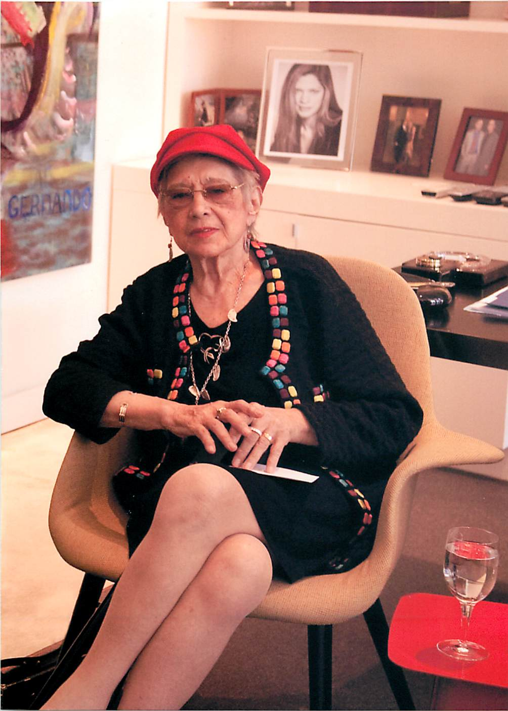 Agnes Varis Photo 2011 New York City